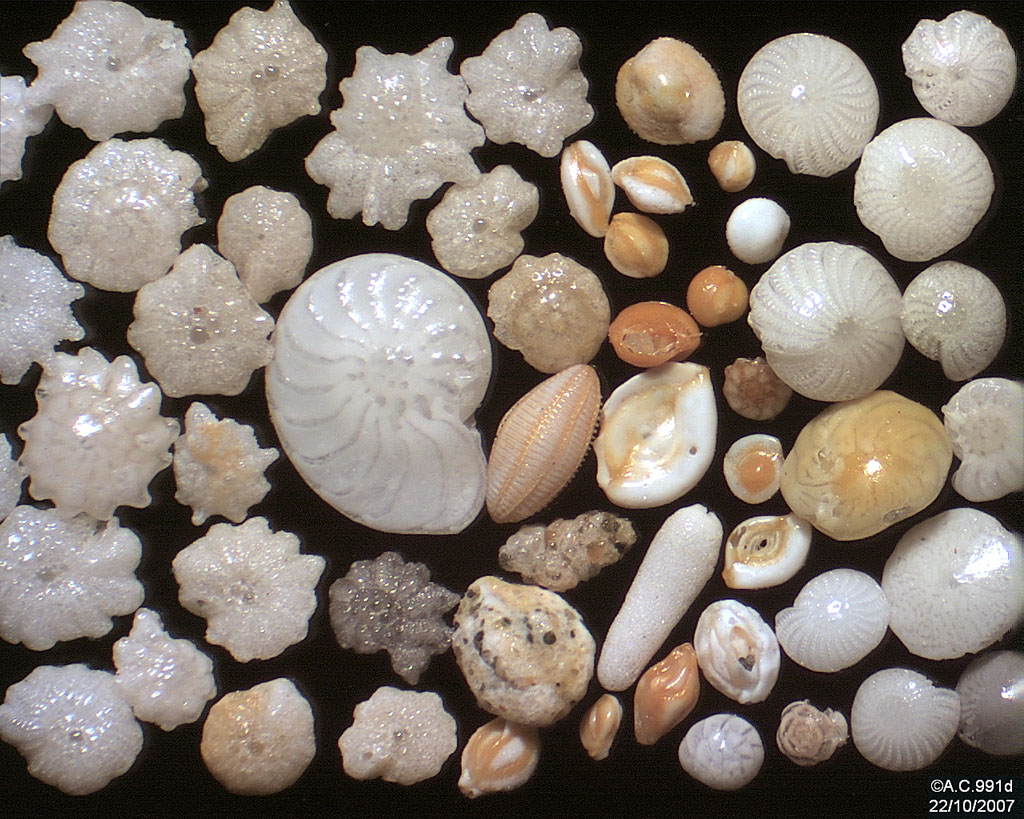 Tests of foraminifera extracted sand from the beach of Ngapali (Myanmar)